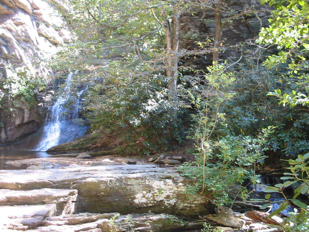 Lower Cascades, Hanging Rock State Park, NC, taken by uploader, September 2005.